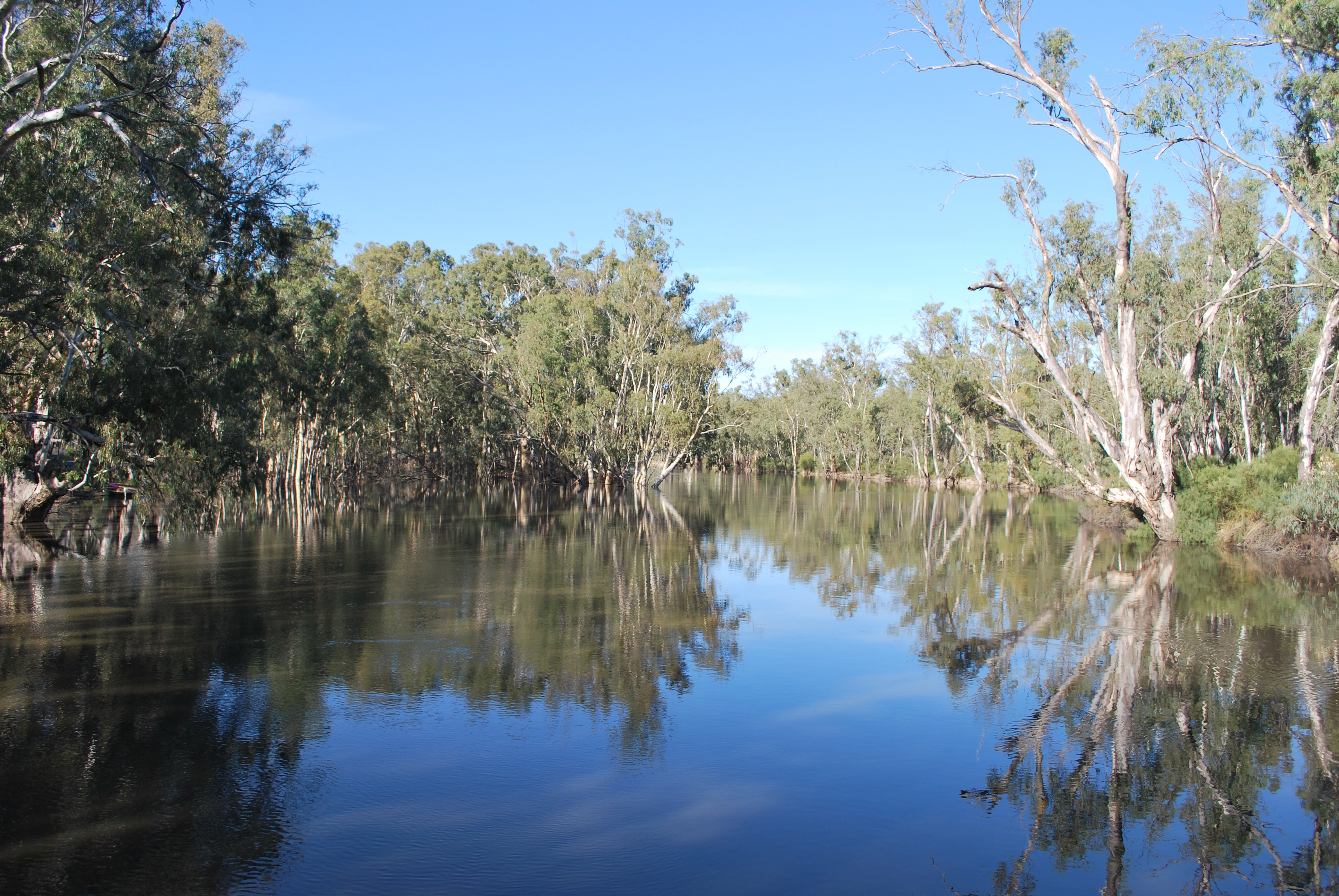 The Edward River at Morago, New South Wales